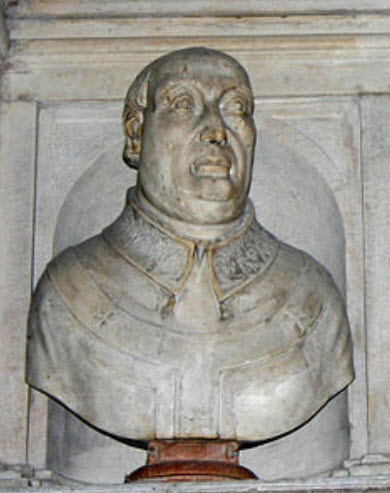 Bust of Cardinal Giovanni Arcimboldi from the monument by his grandson, Archbishop Giovanni Angelo Arcimboldi in Milan Cathedral. The image is a detail of